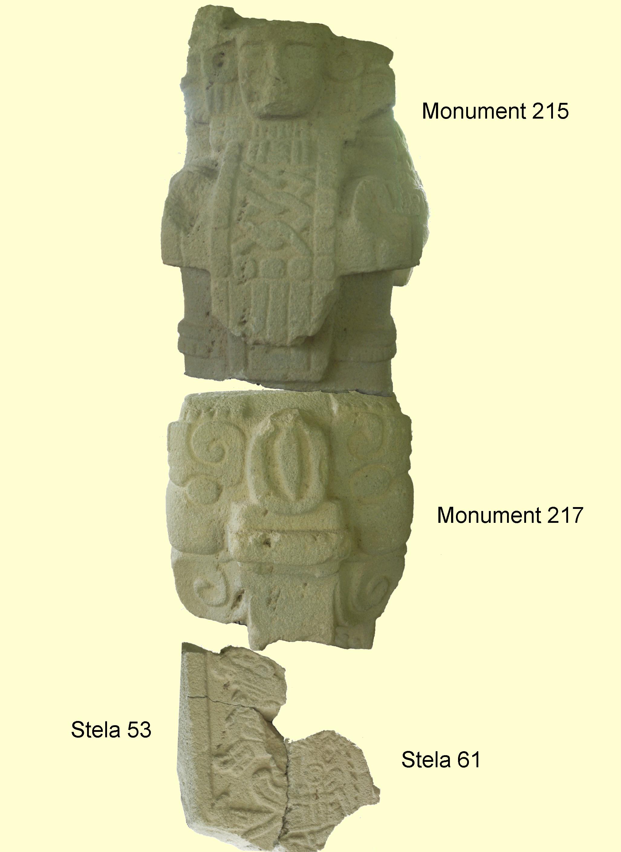 The Cargador del Ancestro ("Ancestor Carrier") sculpture from Takalik Abaj, Retalhuleu, Guatemala. Late Preclassic, Olmec/Maya transition.